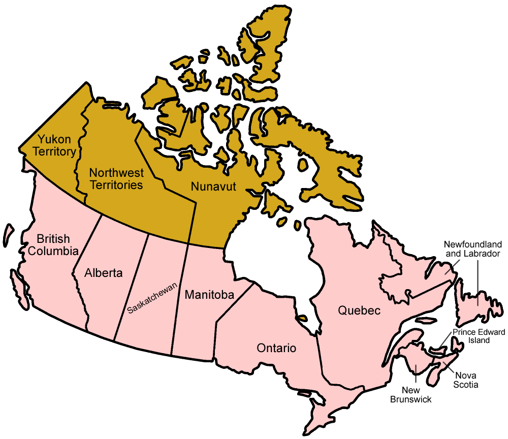 Map of the provinces of Canada in English. No, it's not nearly as good as the existing stuff here, but I didn't want any gaps in my suite of maps, so here it is. Maybe someone will find it useful! Made by User:Golbez.